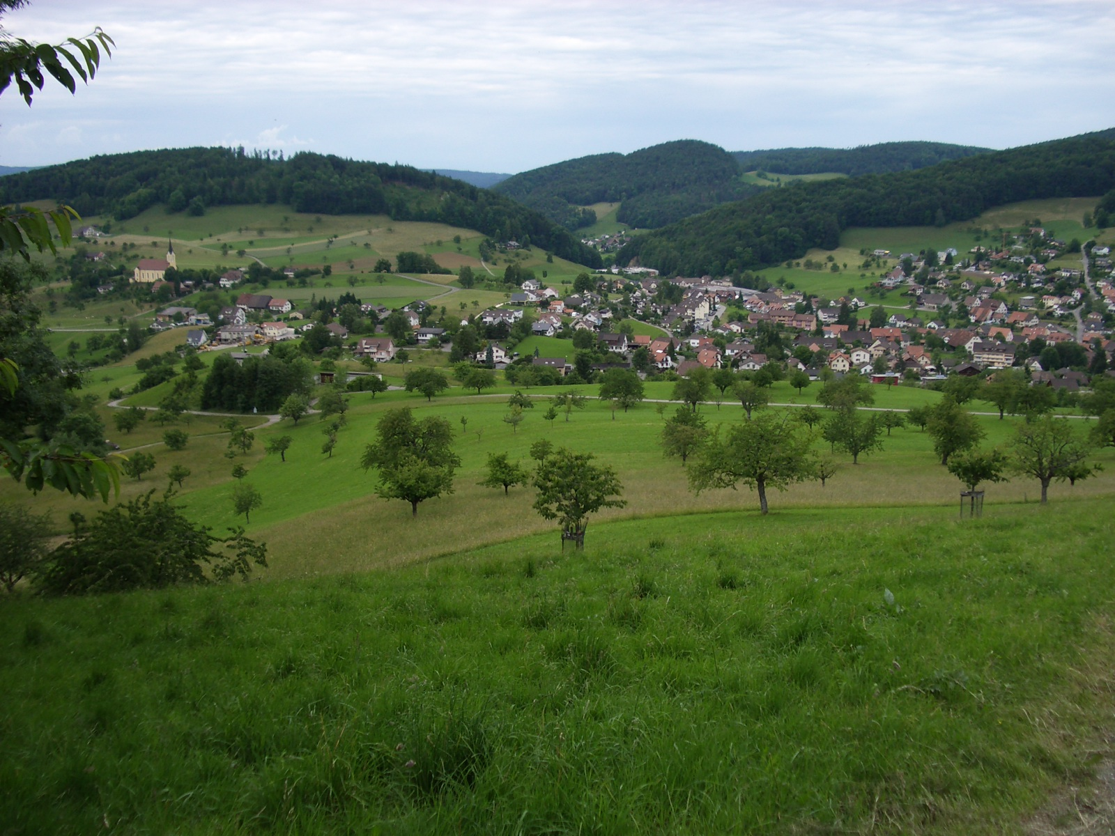 Nunningen SO, Switzerland